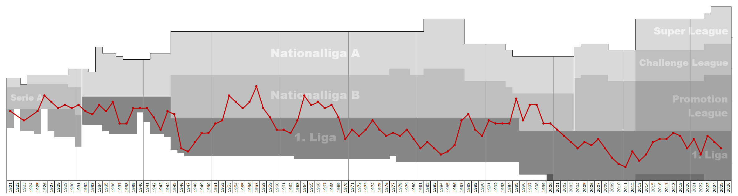 Chart of end-season table positions for FC Solothurn in the Swiss football league system. Data source: RSSSF